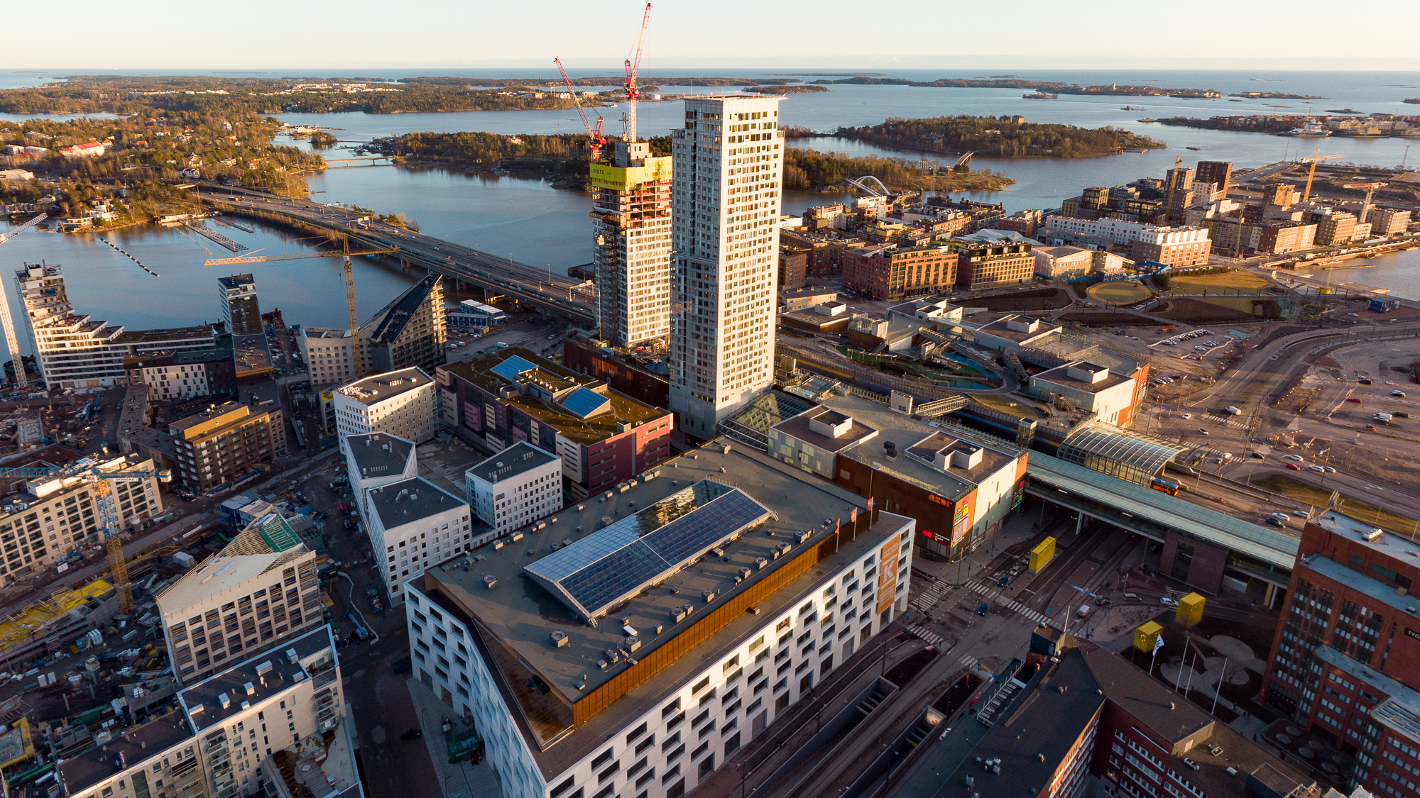 Aerial view of Kalasatama region of Helsinki, Finland